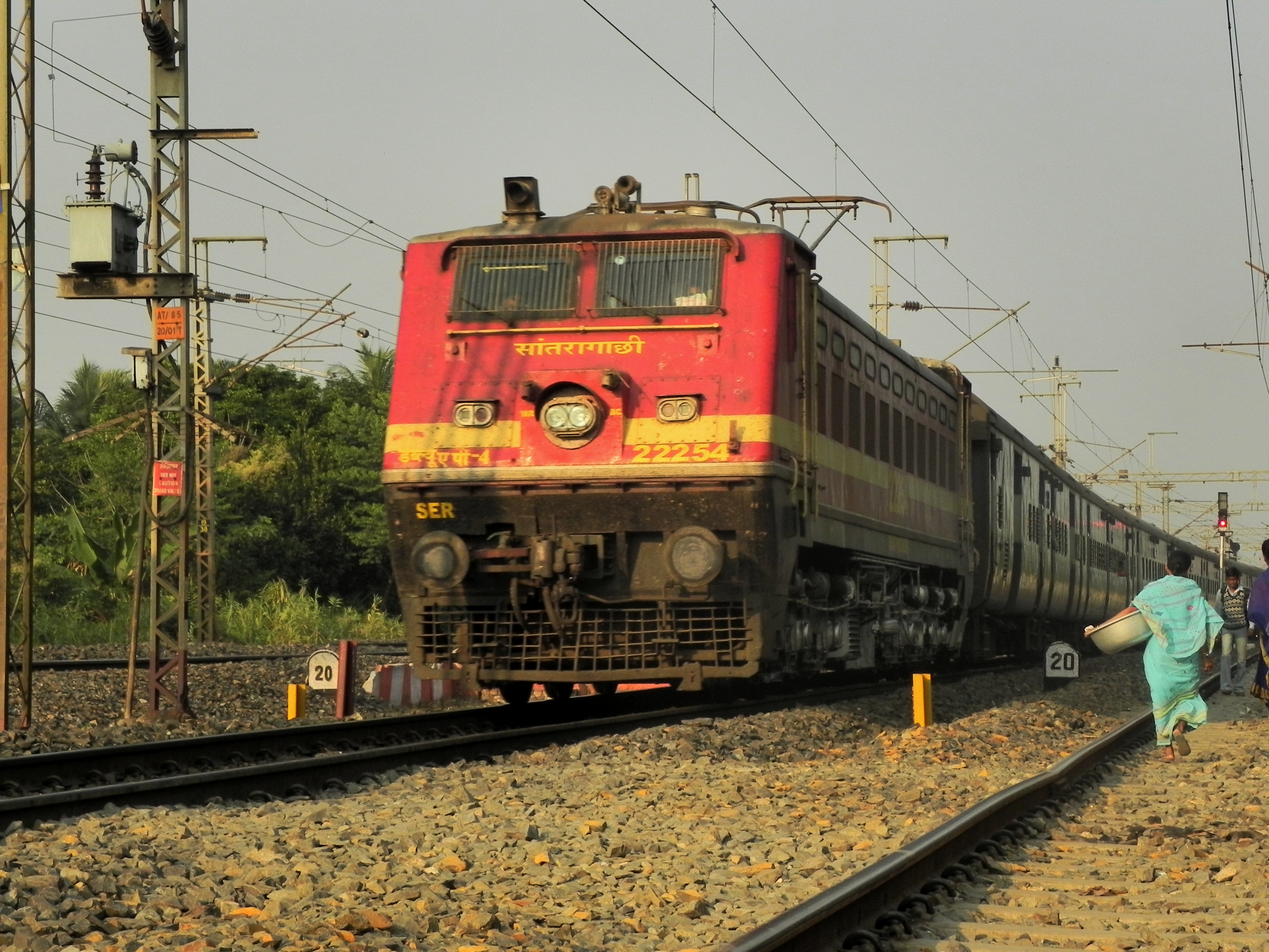 Coromandel Express with WAP-4 Loco at Nalpur, West Bengal